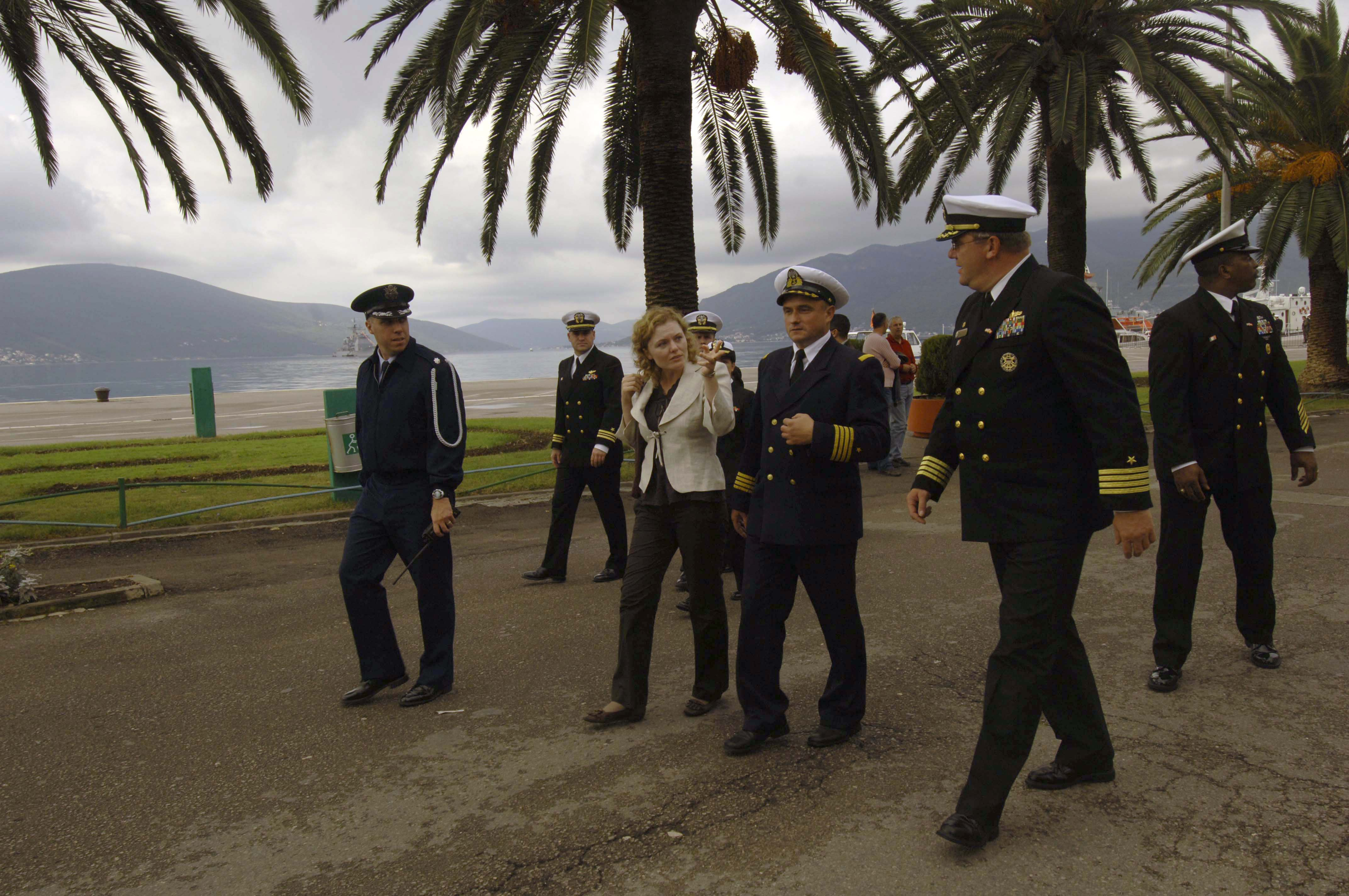 Tivat, Montenegro (Oct. 23, 2006) - Capt. Perry Bingham, right, commanding officer of the guided-missile cruiser USS Anzio (CG 68), takes a walk through Tivat, Montenegro, with a Montenegrin representative after Anzio pulled into port. Anzio's visit is one step the Navy is taking to strengthen the emerging partnership with Montenegro and the Montenegrin navy. Anzio is the first ship to visit Tivat since 1975. U.S. Navy photo by Mass Communication Specialist 3rd Class Matthew D. Leistikow (RELEASED)